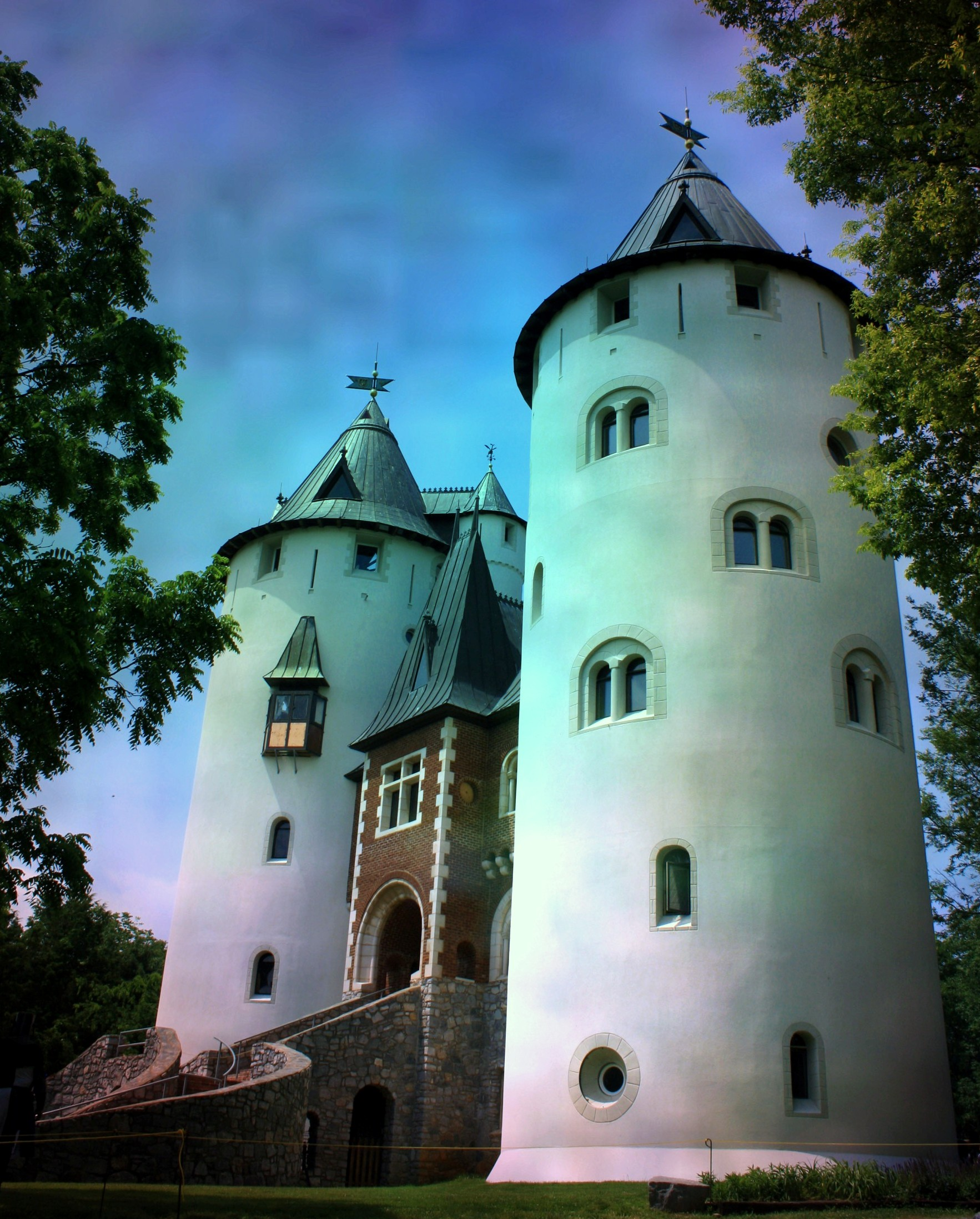 Castle Gwynn near Triune, Tennessee.